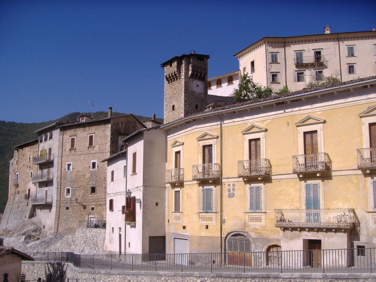 Teresa and Giovanni's place is at the extreme left.